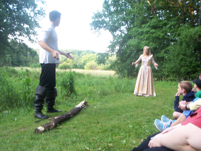 Shakespeare in the Arb. Two actors perform a scene from "The Tempest" in Nichols Arboretum, Ann Arbor.